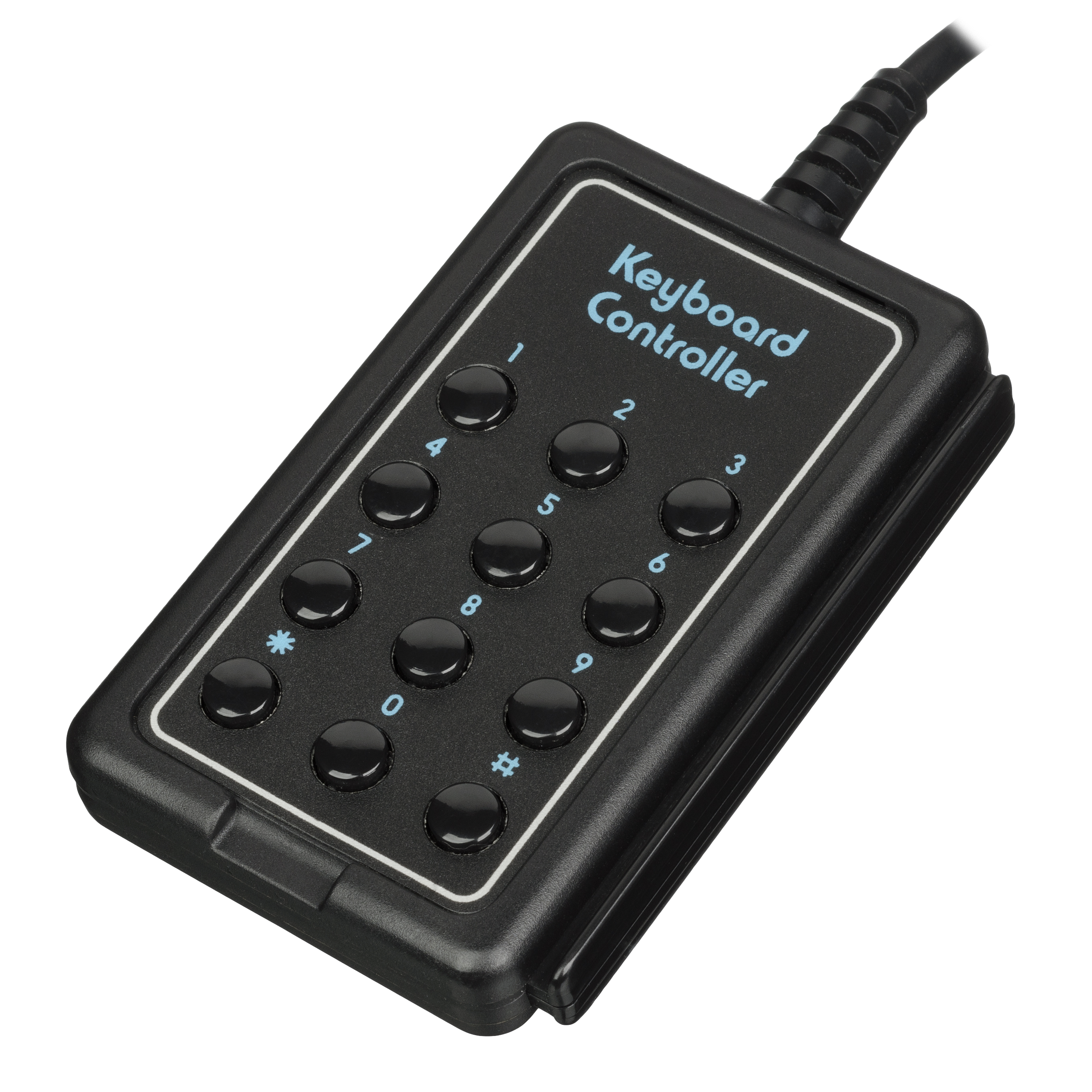 The keyboard controller for the Atari 2600 video game console. It has the same functionality as the Video Touch Pad and can be fitted with overlays. It had a small library of games that were made to make use of it.